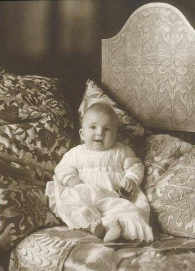 Prince Mircea of Romania